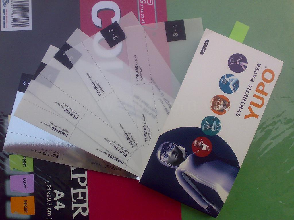 Yupo synthetic tracing paper